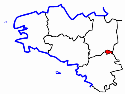 Description: Map for localisazion of cantons of Pays-de-Loire, region in France Source: made by Hervé Tigier in april 2005 from another large map (published in 1990)